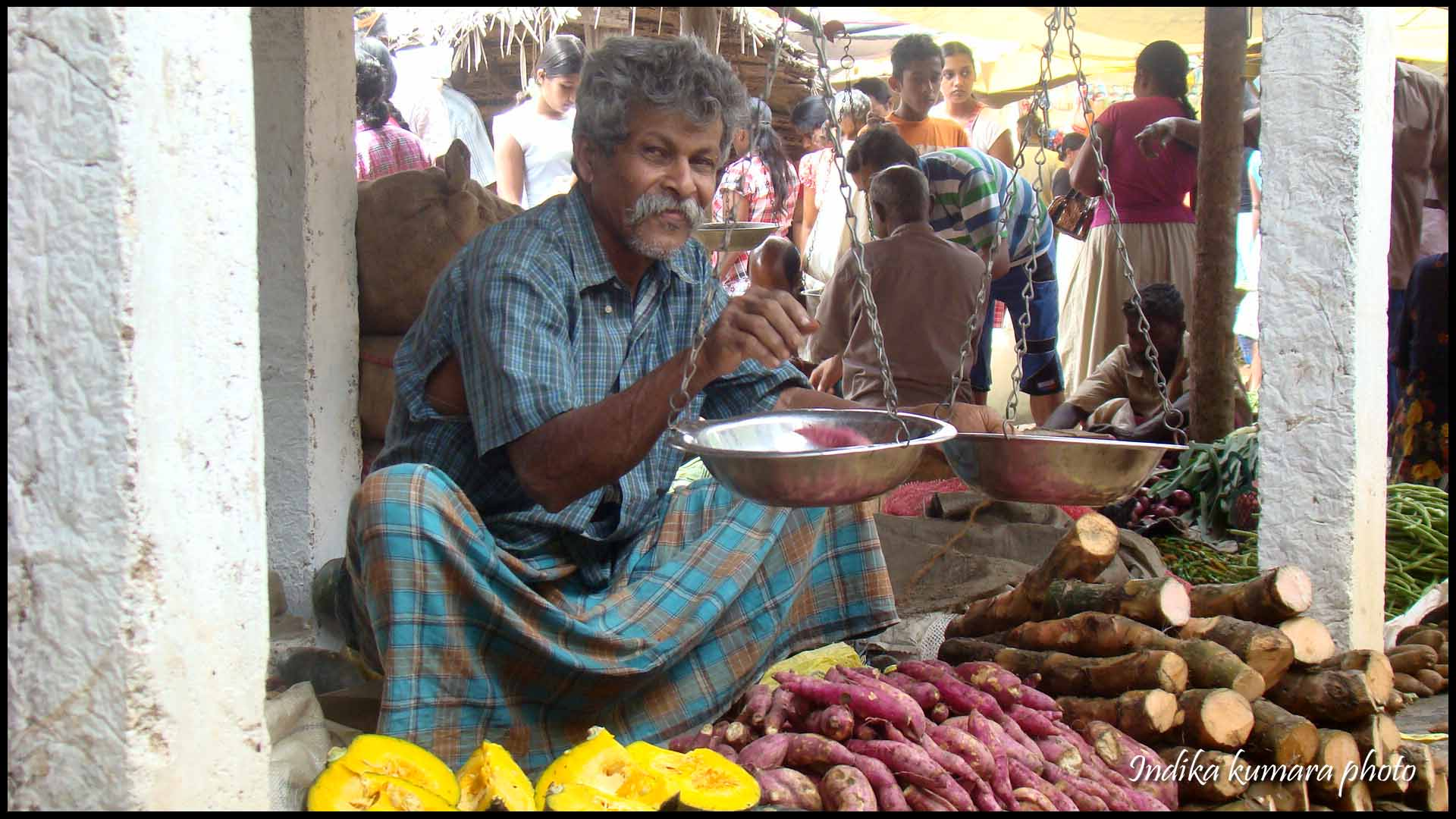 An ordianry fair in a rural village of sri lanka